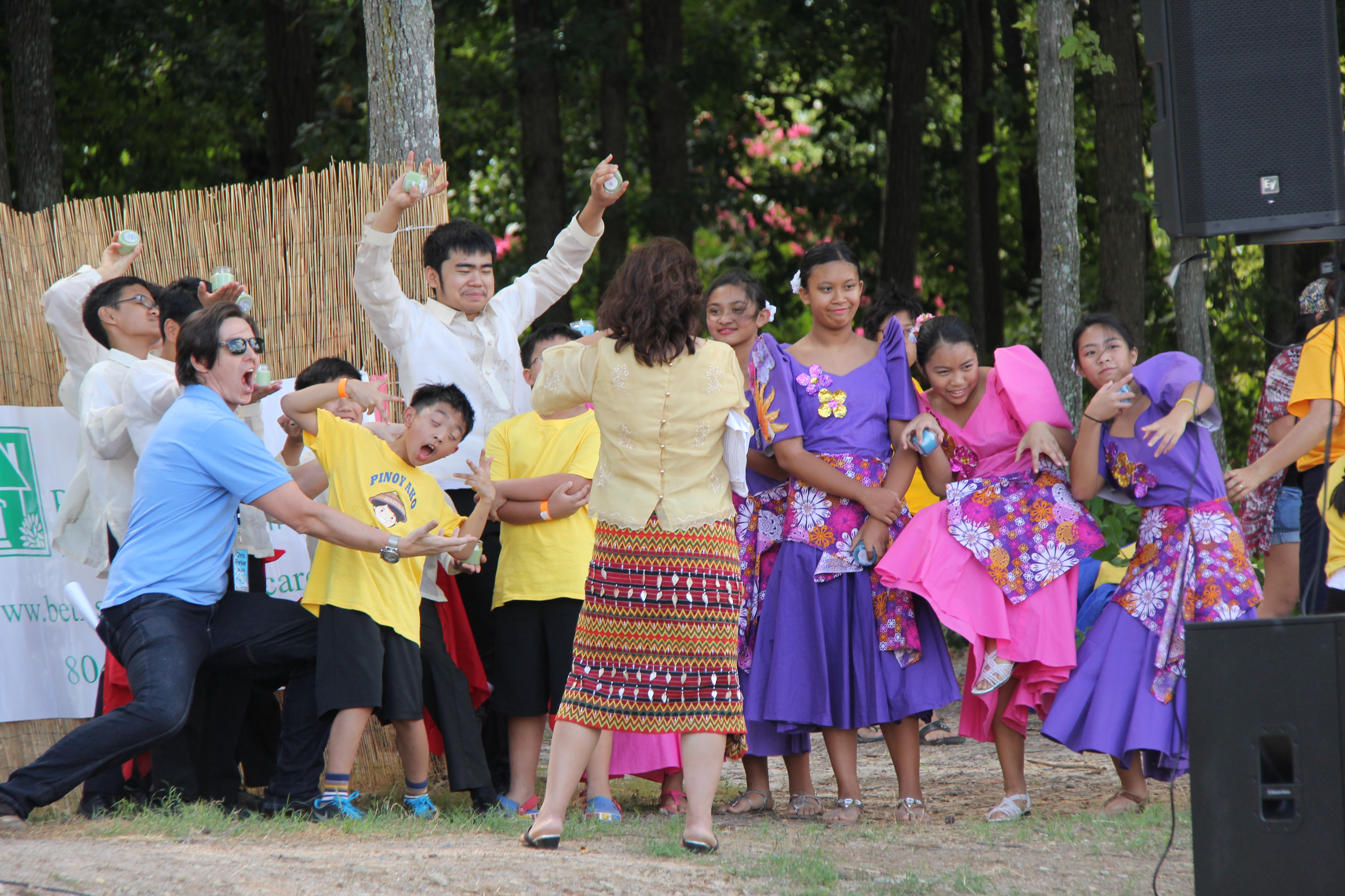 Now in its tenth year, the Filipino Festival is a community event which showcases the richness of the Filipino culture and promotes a respect for and appreciation of the Filipino heritage. Featuring a delectable cuisine, folk dances and music, the Filipino Festival has attracted thousands of attendees from Richmond and surrounding cities and counties who want to experience the best of the Philippine islands without leaving Virginia.